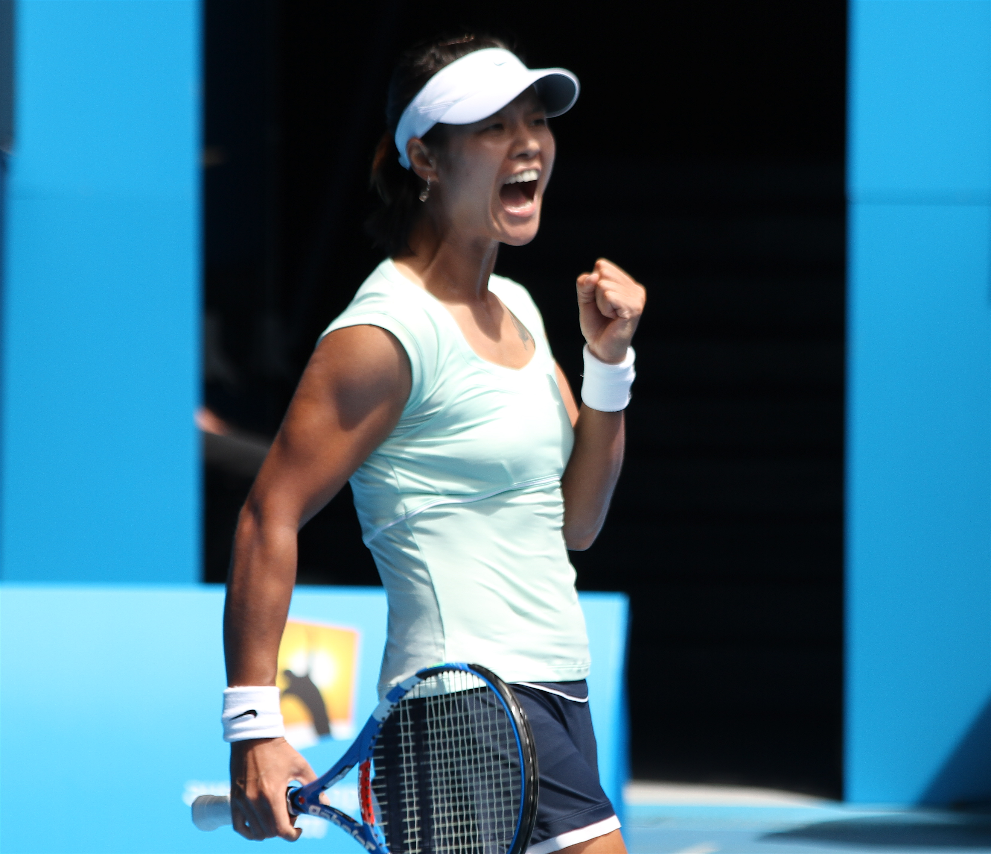 Posted via email from Globalite Magazine